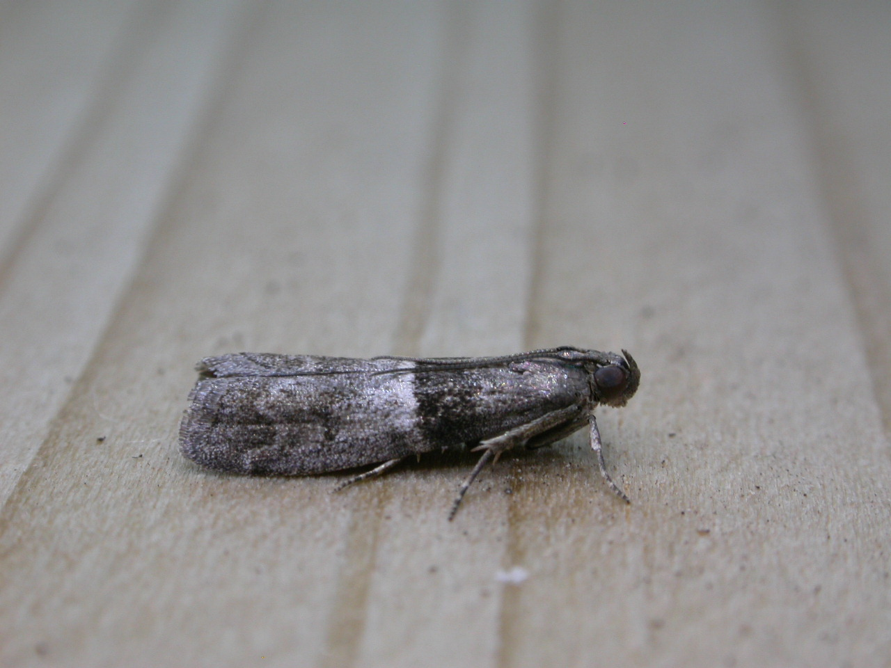 Elegia fallax, Gastes, Landes, SW France, 1/2 July 2003